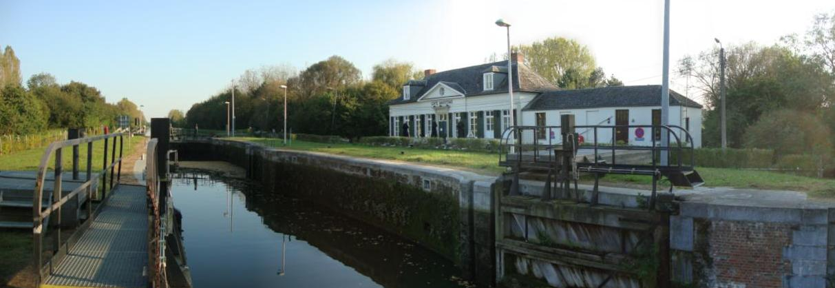 The lock dates from 1762, the lockhouse from 1771. The canal Leuven-Dyle was built between 1750 and 1753